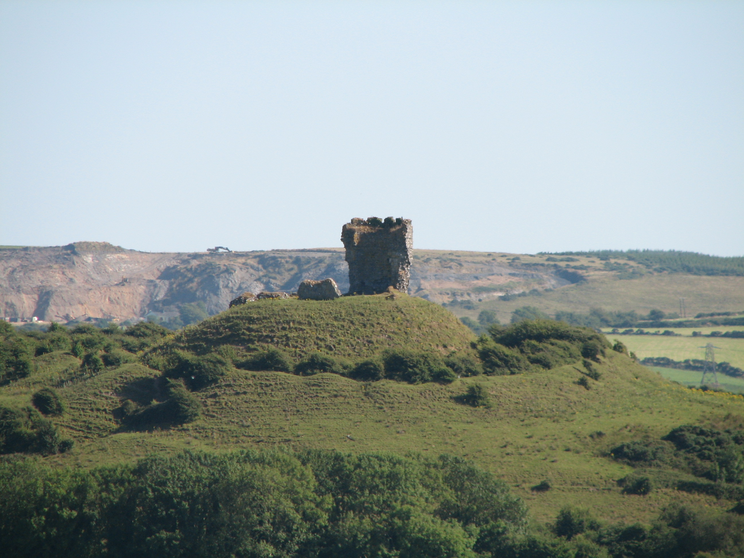 Near Shanagolden. I've been told this is Shanid Castle.